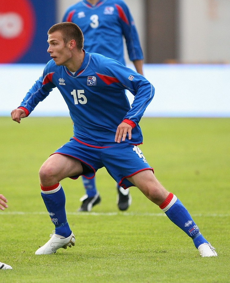 Iceland football player Theódór Bjarnason during match against Wales